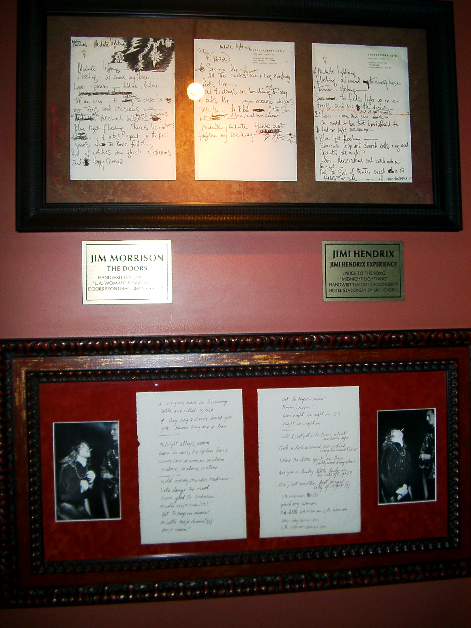 Jimi Hendrix and Jim Morrison handwritten song lirycs at the Hard Rock Cafe in New York. Up: Midnight Lightning by Jimi Hendrix on Londonderry Hotel paper. Down: L.A. Woman by Jim Morrison (The Doors).